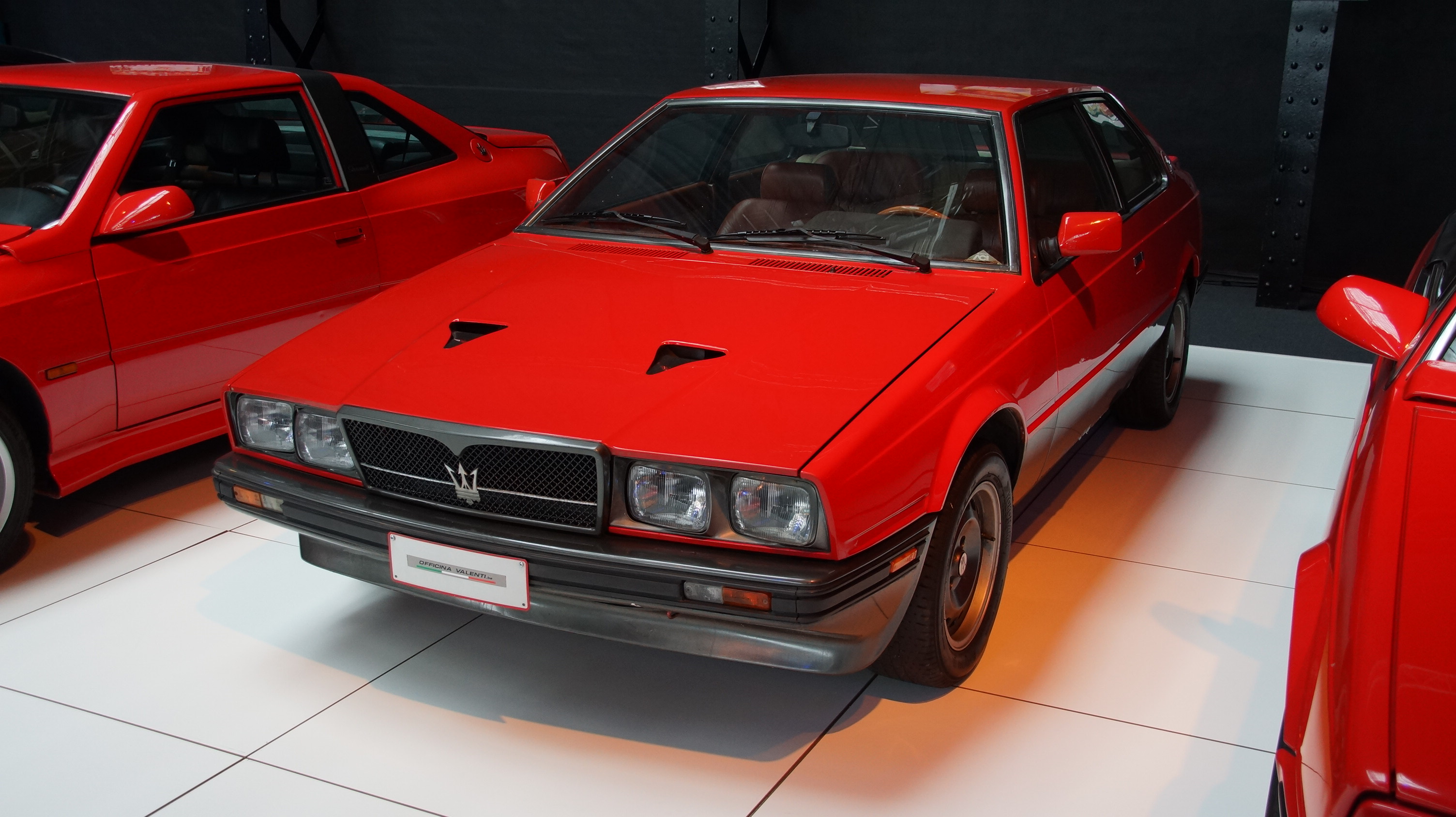 Maserati Biturbo S at the 100 Years Maserati show at Autoworld Brussels